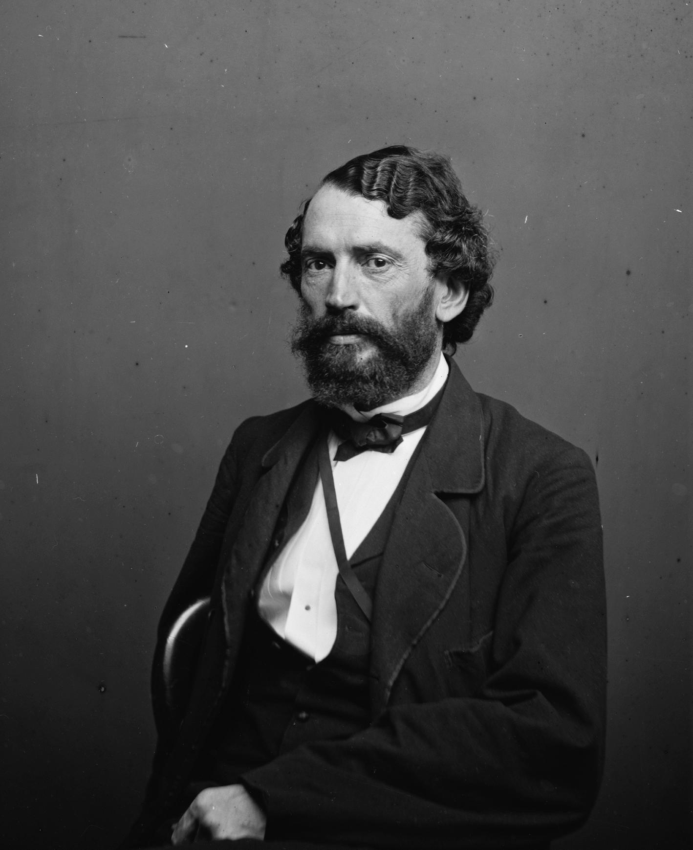 James Hepburn Campbell. Library of Congress description: "Campbell, Hon. James Hepburn of Pa. Appointed Minister to Sweden by Lincoln, 1864-1867"